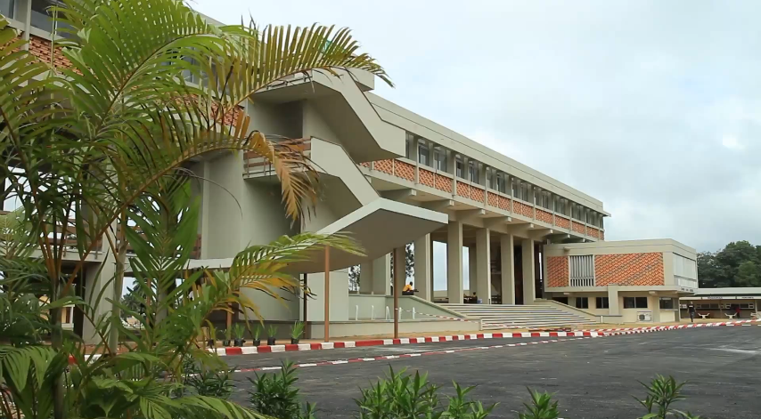 Presidency building of the Félix-Houphouët-Boigny university of Abidjan, a few days before its official reopening.